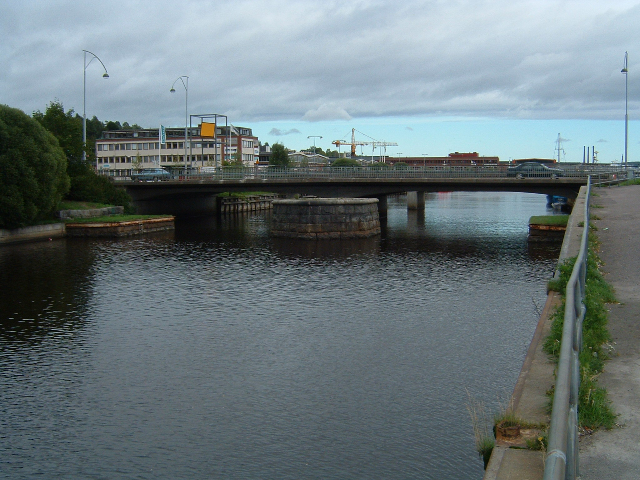 Tivolibron, a bridge across Selångersån river in central Sundsvall, Sweden, viewed from west